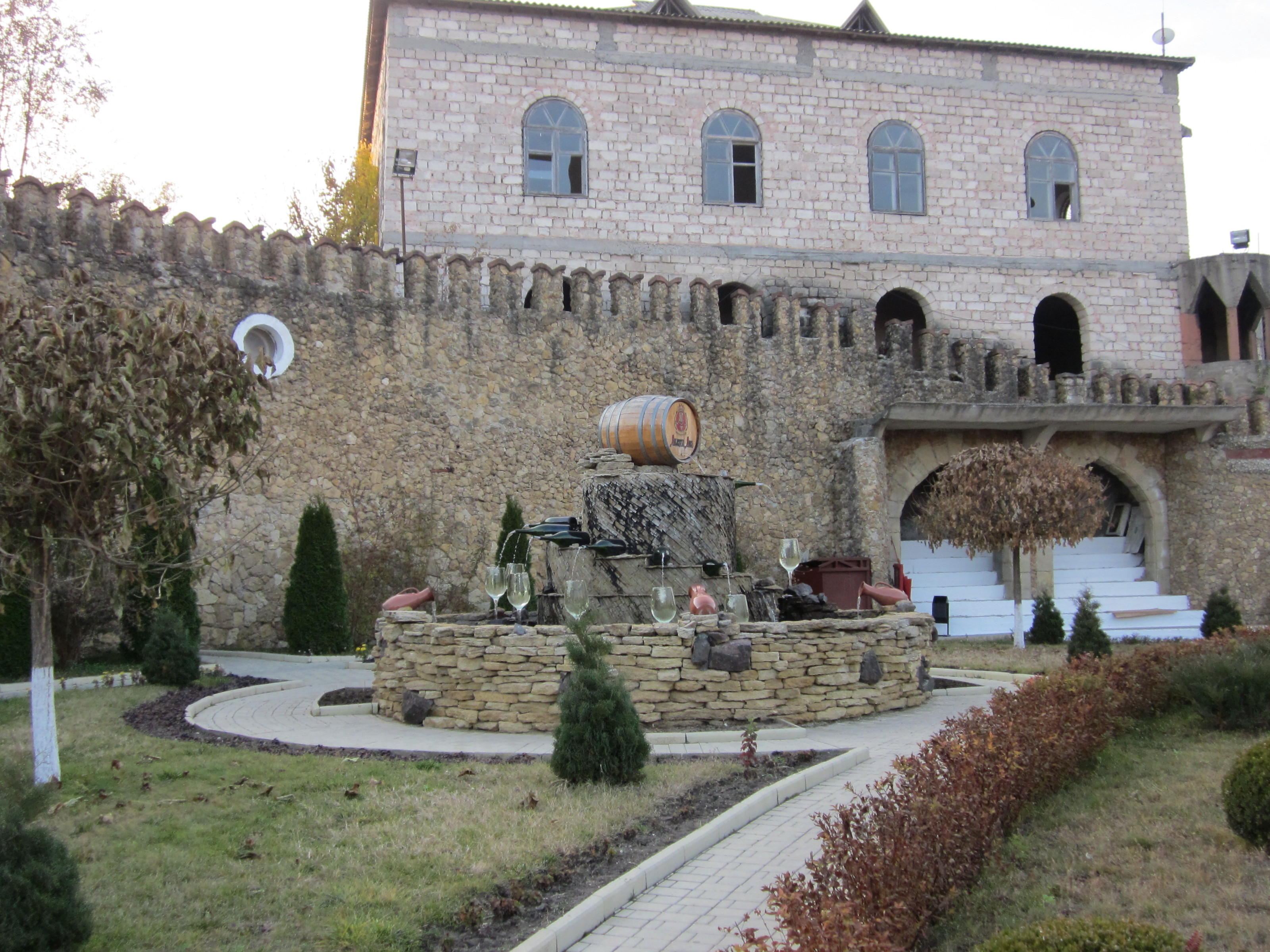 The surroundings outside the Milestii Mici Wine Cellars (Moldova)